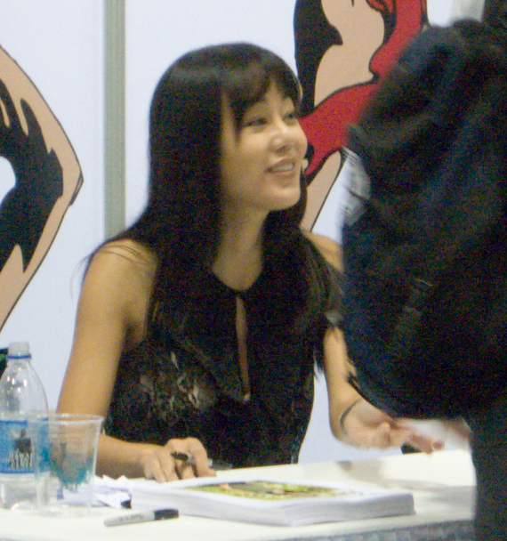 Yunjin Kim at the Hawaii Convention Center